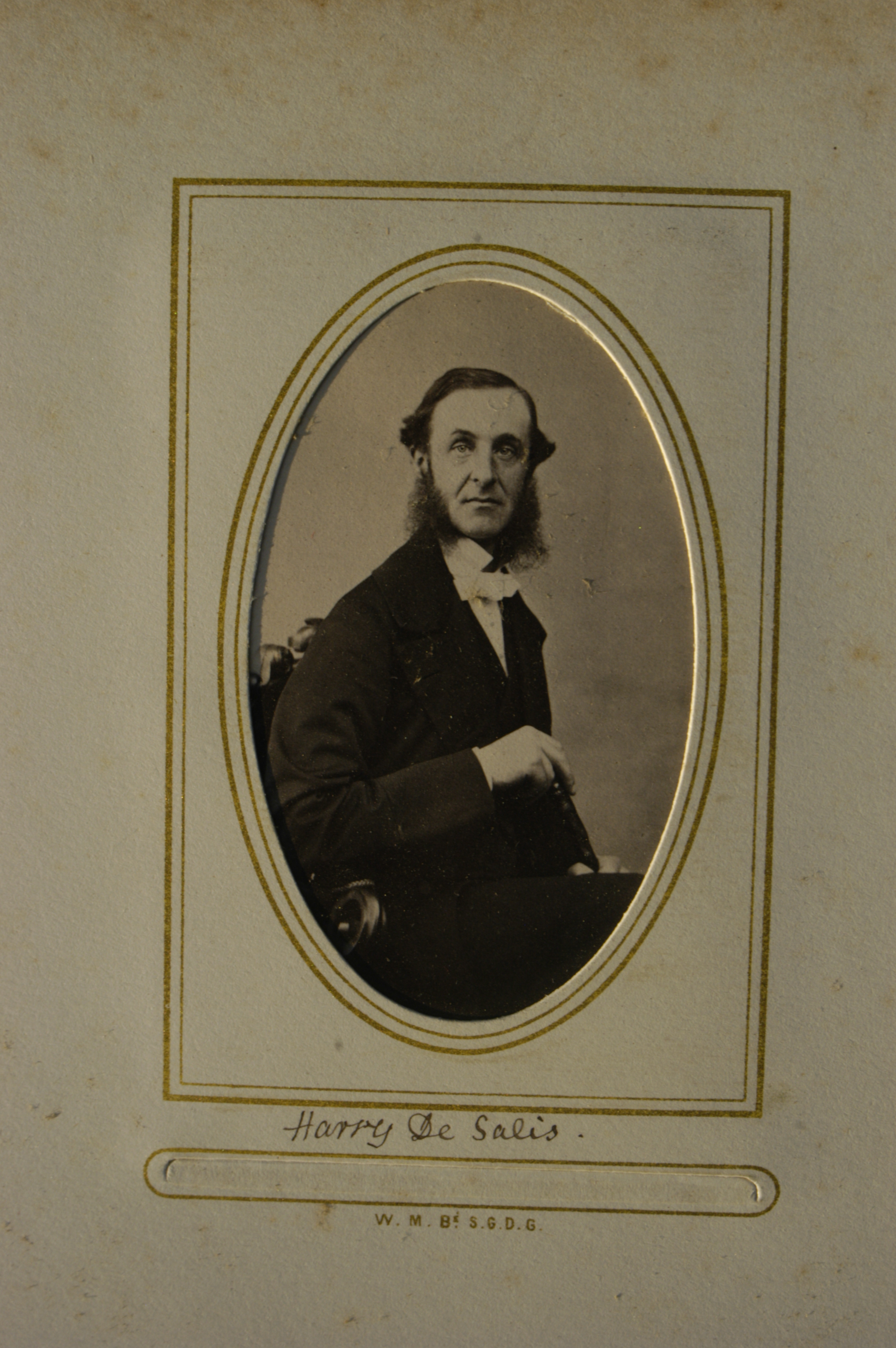 My digital photo (Rodolph (talk) 22:38, 22 May 2014 (UTC)) of a carte de visite of Rev. Henry Jerome Fane de Salis (1828-1915), later of Portnall Park.